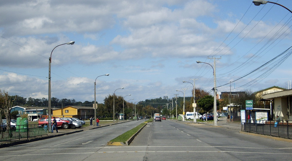 Avenue High Furnace (Talcahuano), Chile